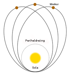 Copy of with Norwegian text